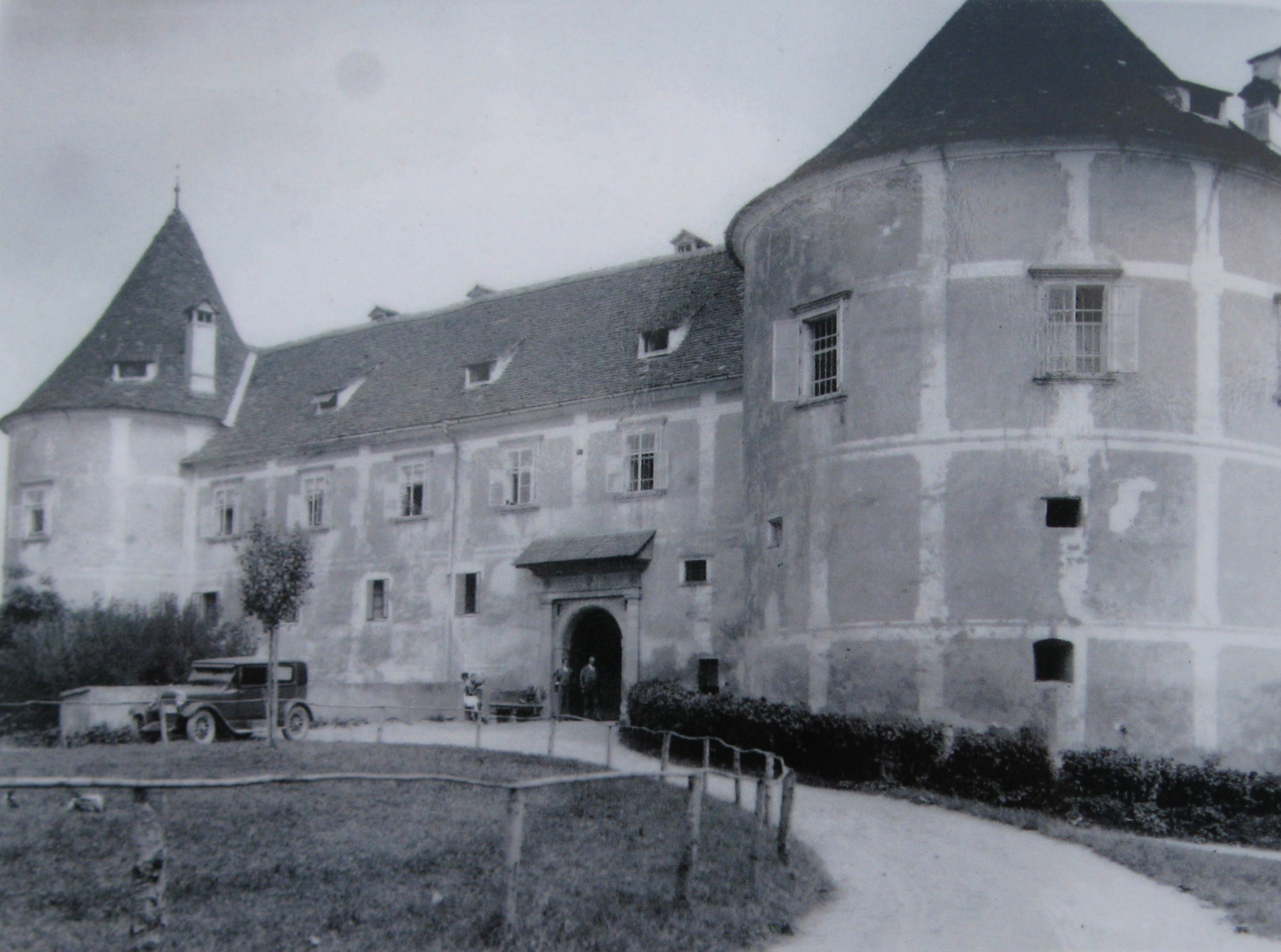 Photocopy of photograph of castle Hrastovec of year 1930 photographer France Stele from a book Lenart v Slovenskih goricah collection author Marjan Toš.